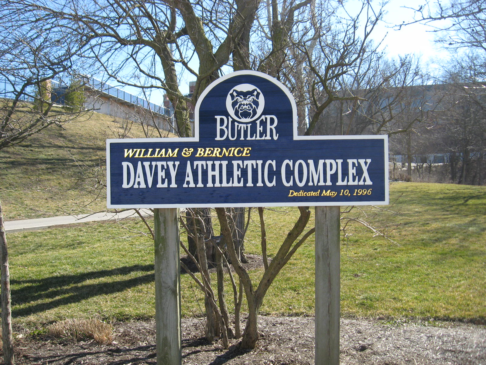 Davey Athletic Sign